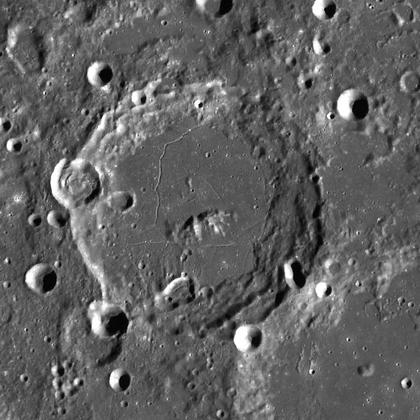 Nernst lunar crater - LROC image